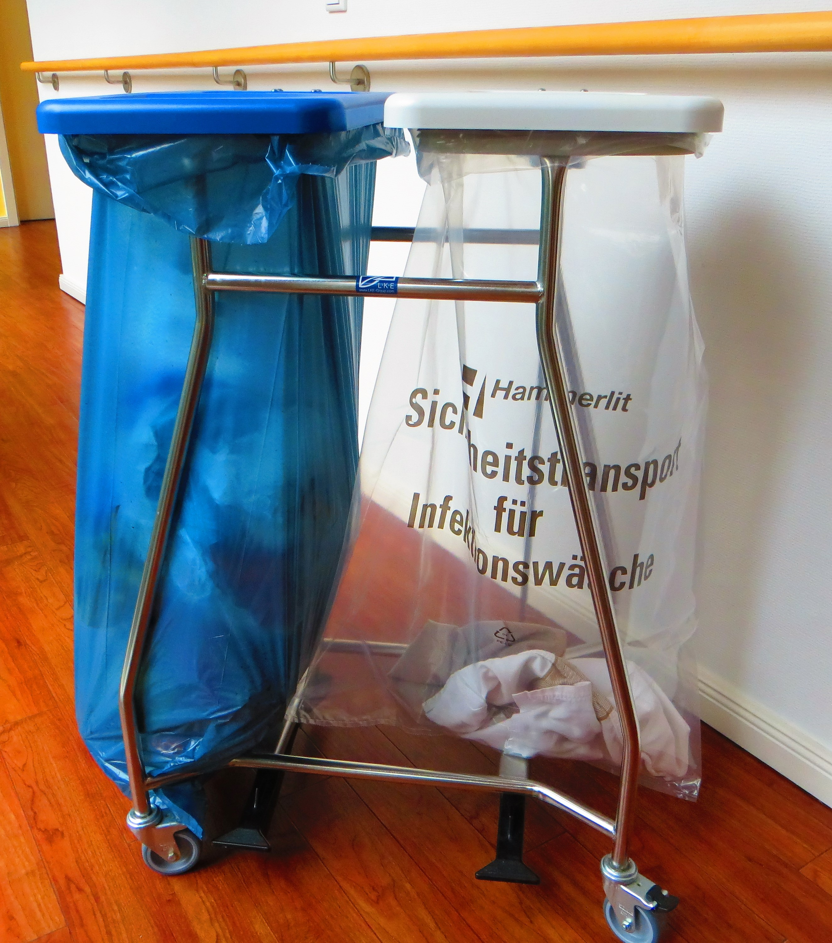 Hamper stand with foot pedals for infectious linen and waste bags